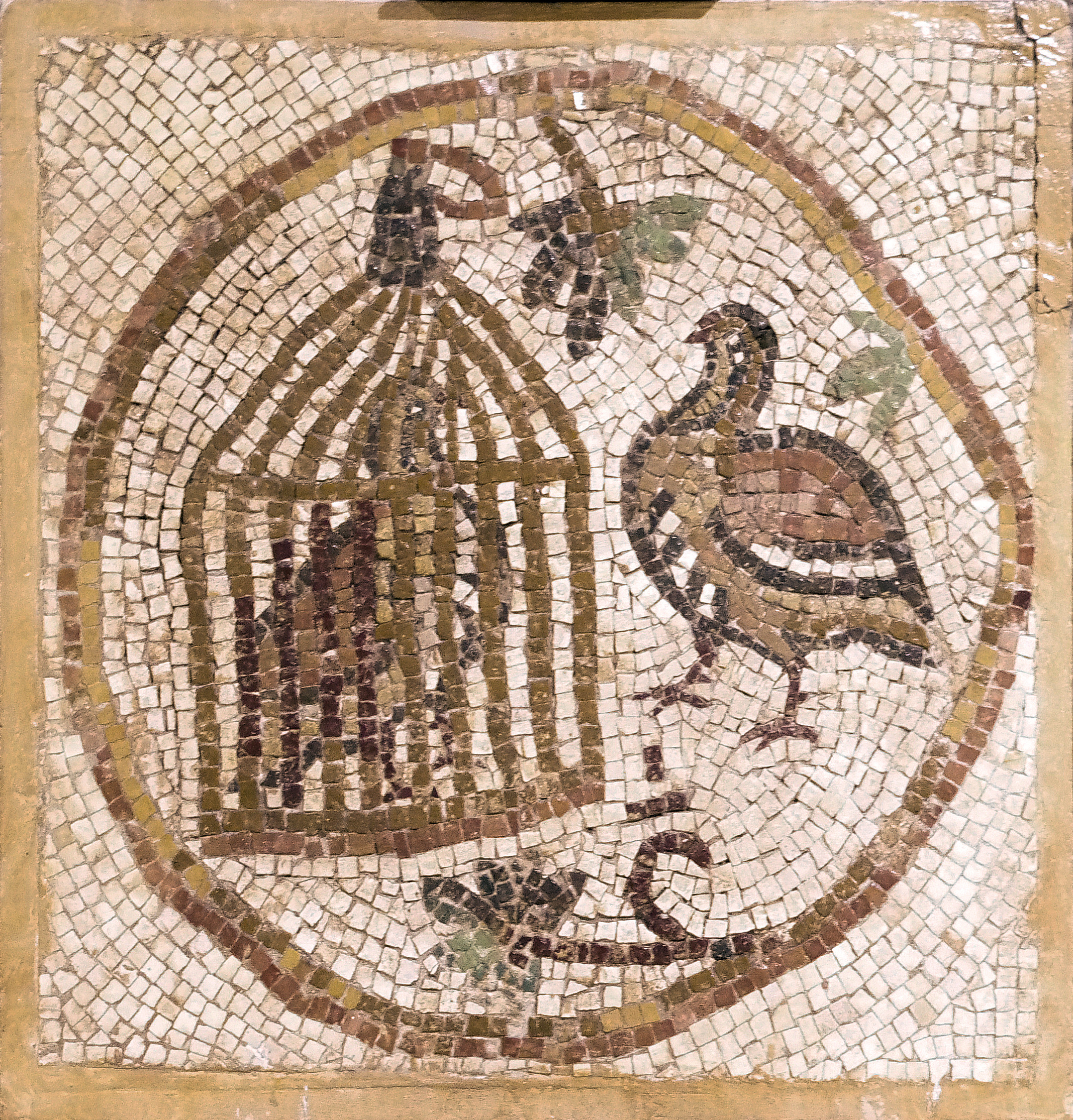 In Byzantine iconography, the bird in the cage represents the human soul trapped inside the body. The bird outside the cage is therefore the soul after being liberated by death. From a 6th century Byzantine mosaic found in Madaba, Jordan. Flickr data on 2011-07-29: Camera: Pentax K-x Tags: jordan, amman, mosaic, byzantine, ancient, art License: CC BY 2.0 User: Ken and Nyetta Ken & Nyetta